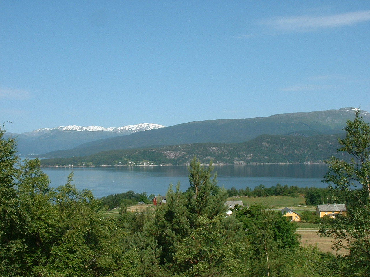 View from Torsnes, Jondal, Hordaland, Norway